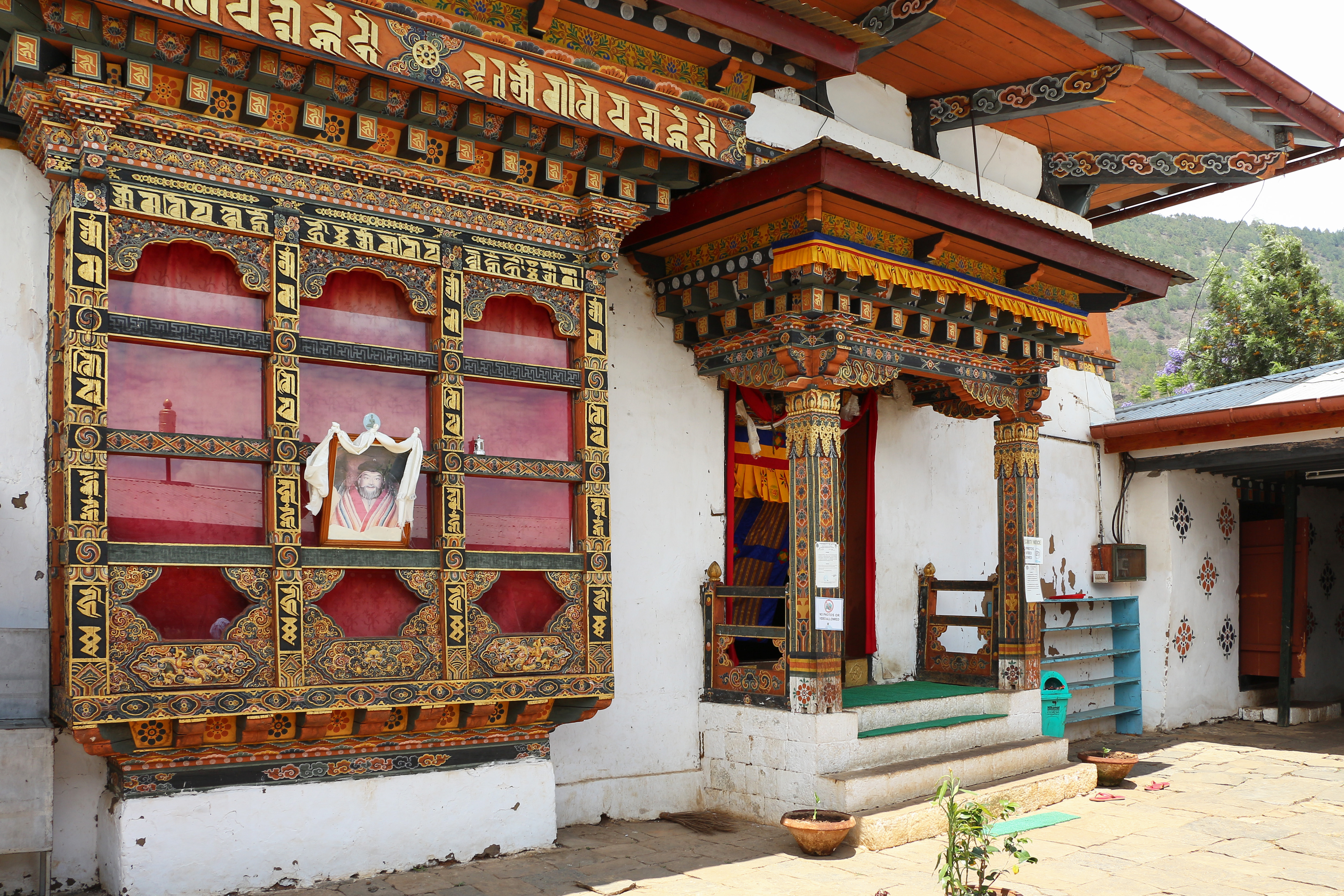 Chimi Lakhang monastery, Bhutan